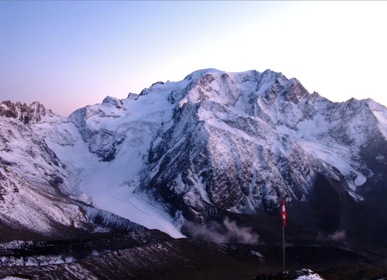 Mont Vélan from Valsorey Hut